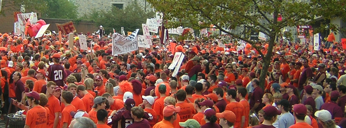 Virginia Tech fans gather to watch College Gameday (en)